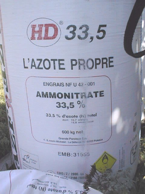 "HD 33,5" ammonium nitrate big bag fertilizer produced by AZF factory in Toulouse, France.